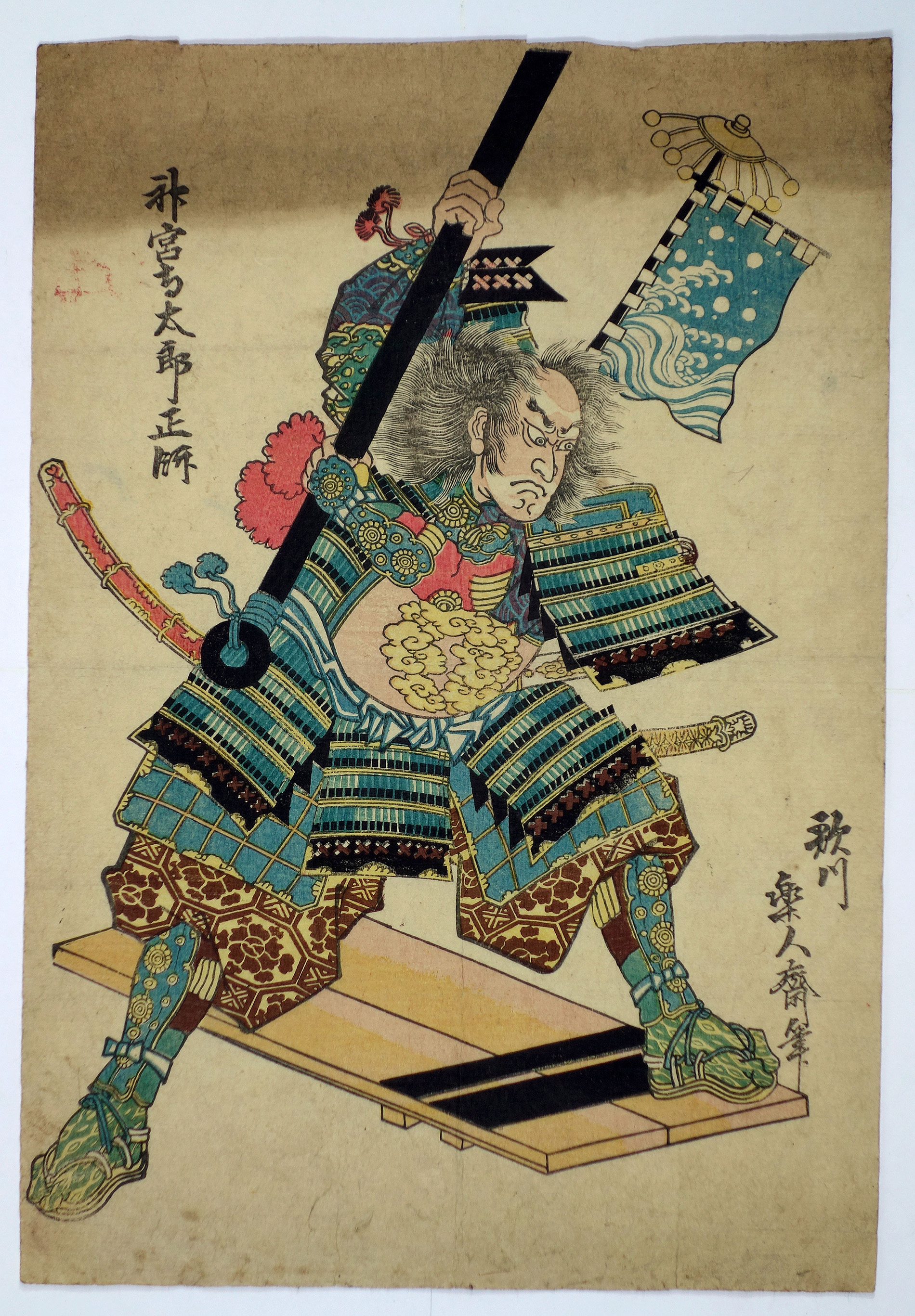 Jingūji Tarō Masamoro